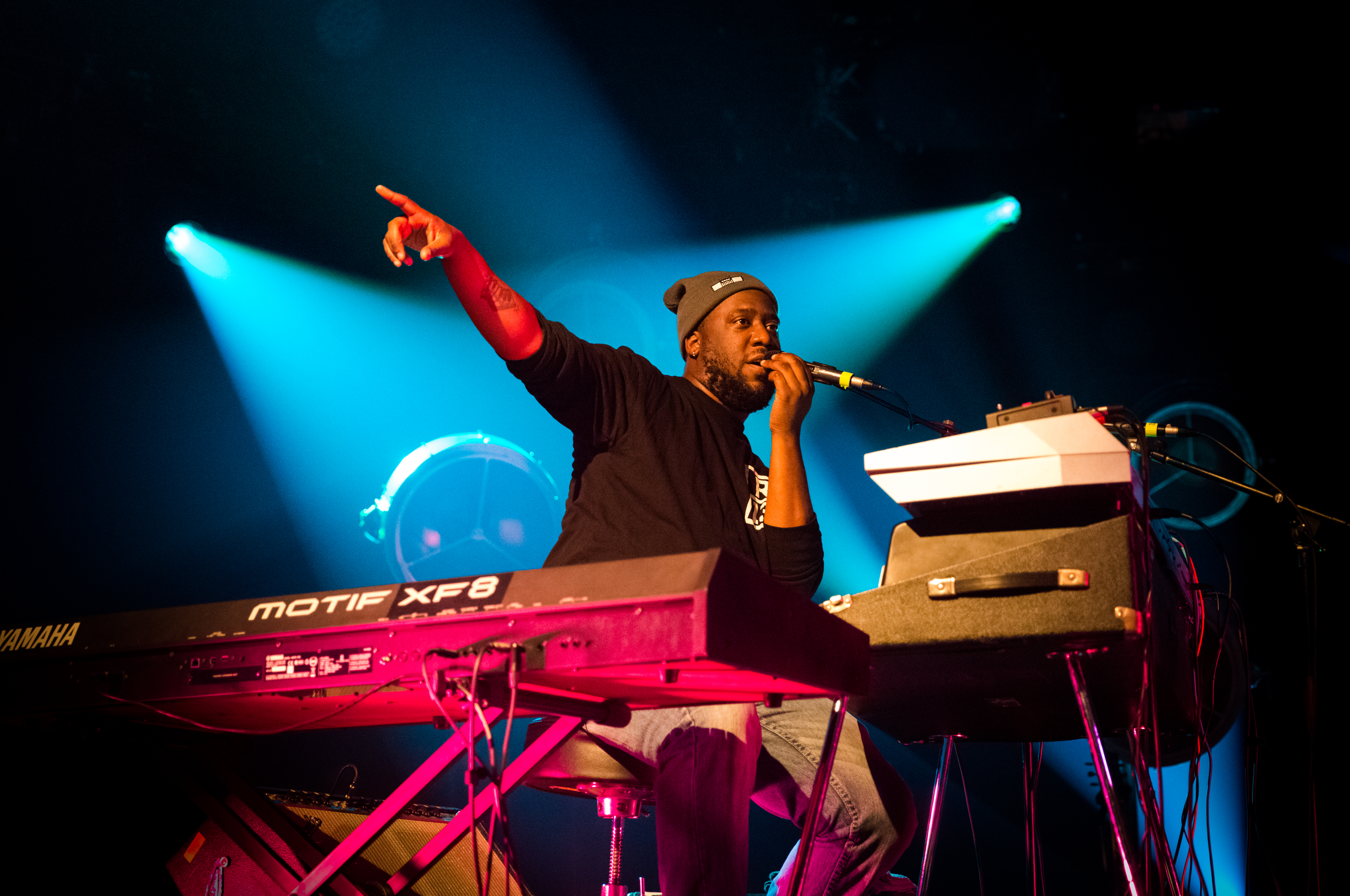 Robert Glasper - Leverkusener Jazztage 2016